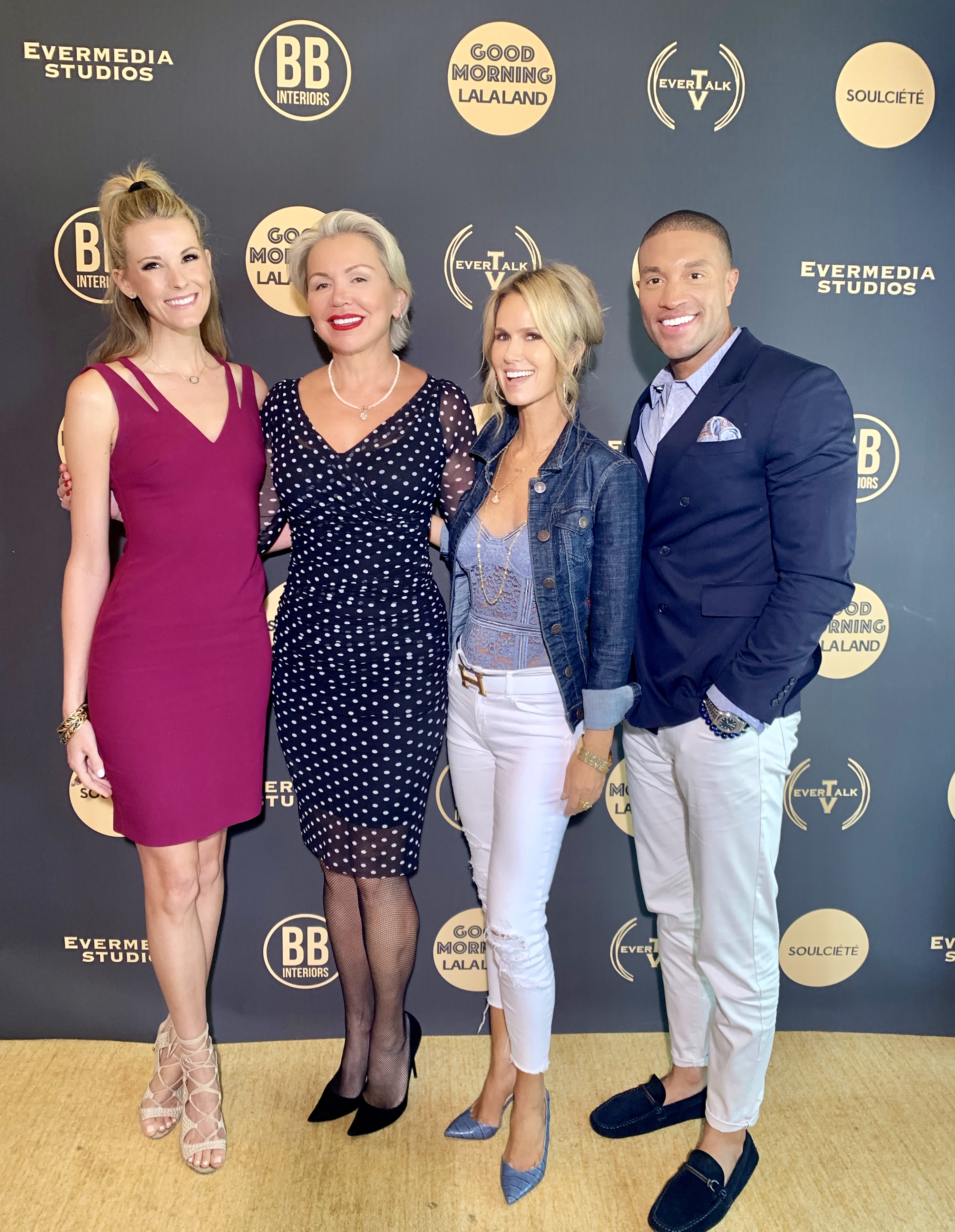 Anna Danes standing with hosts of Good Morning LA LA Land